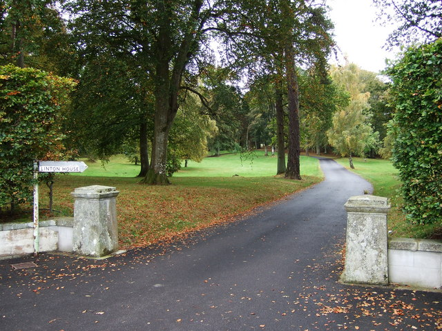 Entrance drive to Linton House